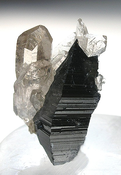 Anatase, Quartz Locality: Hardangervidda, Hordaland, Norway (Locality at ) A SHARP oldstyle anatase, wonderfully associated with gemmy bright quartz! This anatase crysatl is almsot an inch long! Notice it has the sharp classic termination, and not the broad termination of more recent finds 2.8 x 1.7 x 1.3 cm